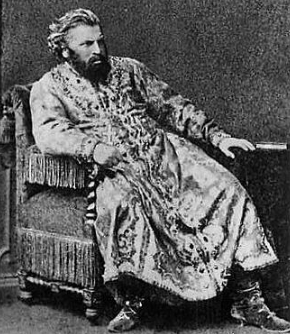 Baritone Ivan Melnikov as Tsar Boris in Boris Godunov 1874